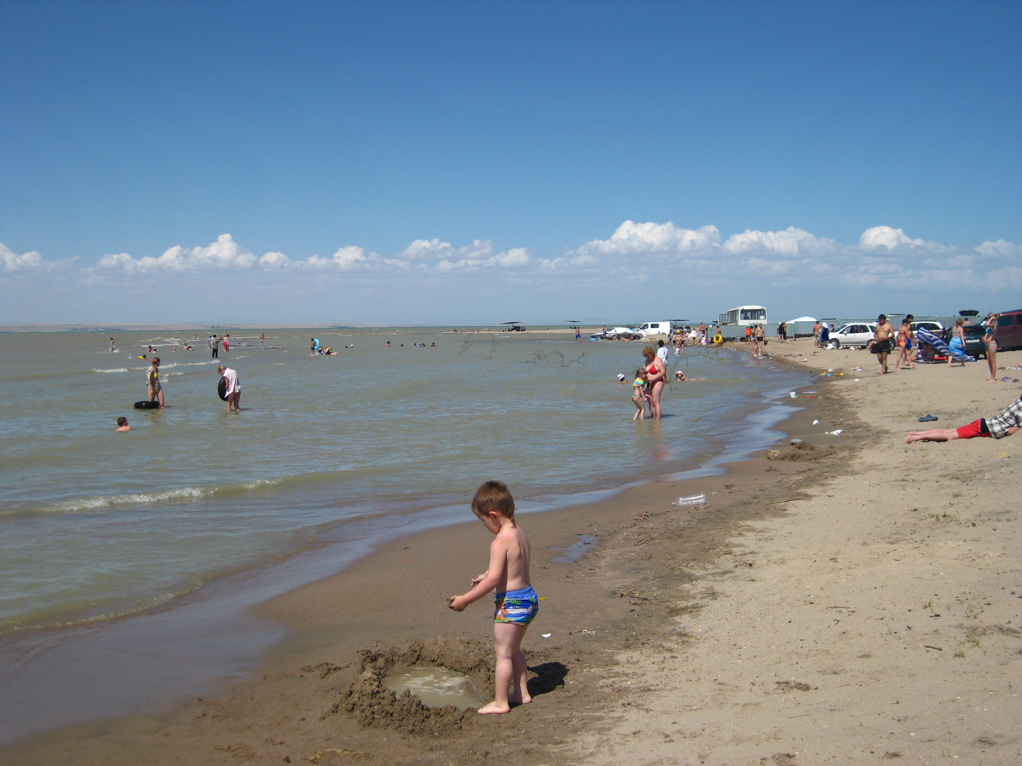 The shore of the Kapchagay Water Reservoir in Almaty province, Kazakhstan